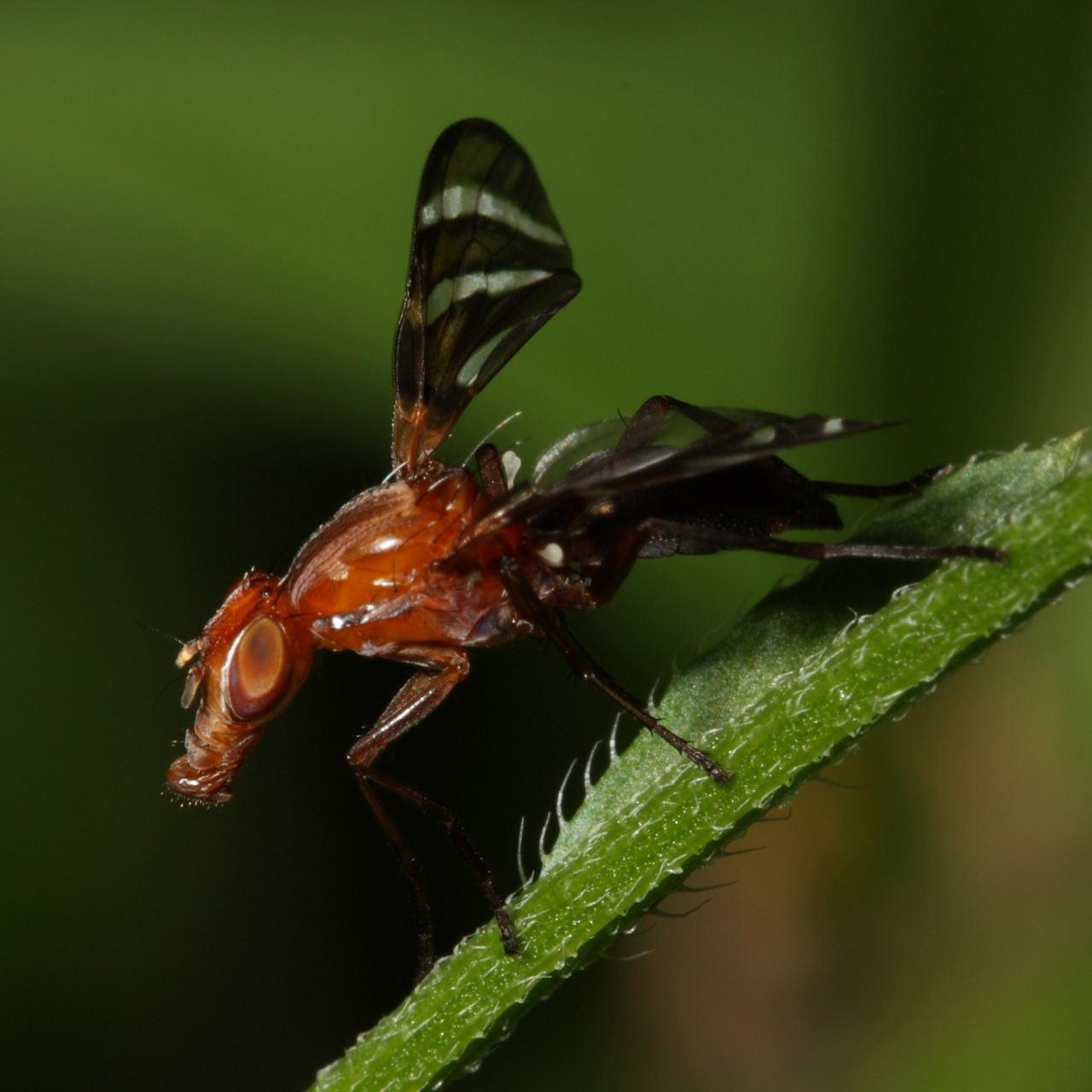 Picture-winged fly (family Ulidiidae) Tritoxa incurva. Live adult fly photographed at Mt. Hoy, Blackwell Forest Preserve, DuPage County, Illinois, USA.